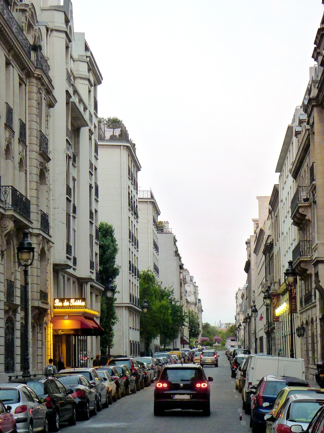 Jean-Goujon street - Paris